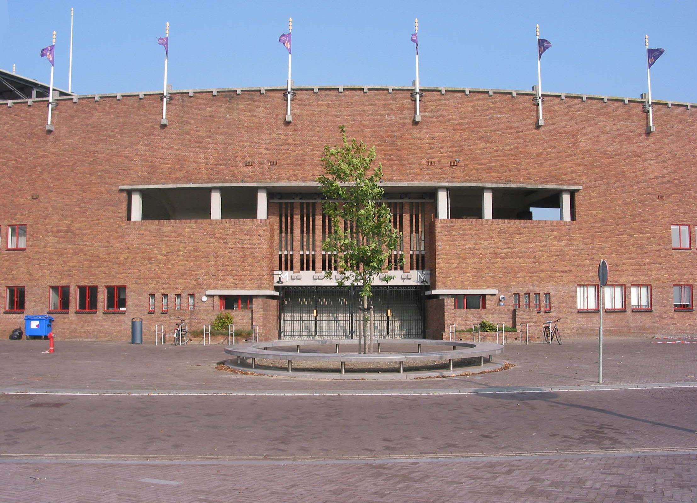 Olympic Stadium, Amsterdam, entrance MN.